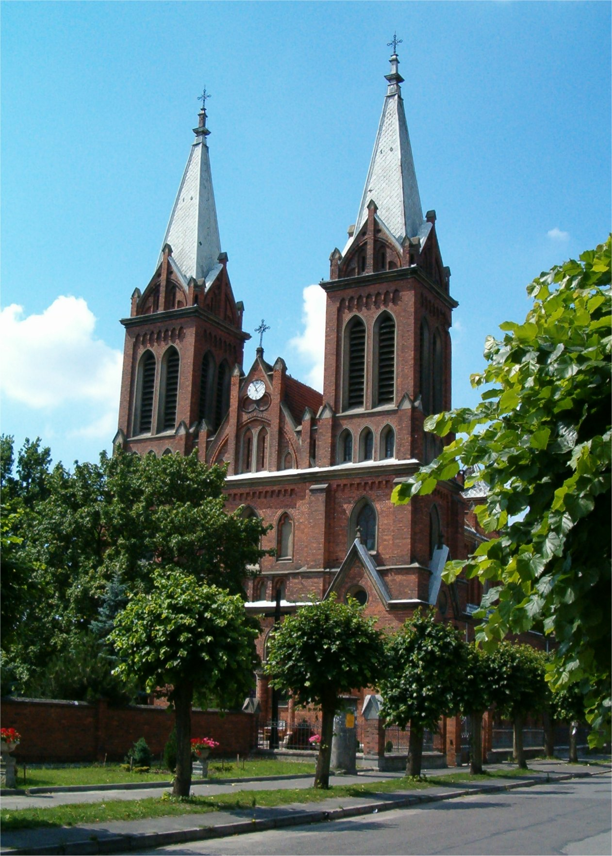 Neogothic Church of Opatówek